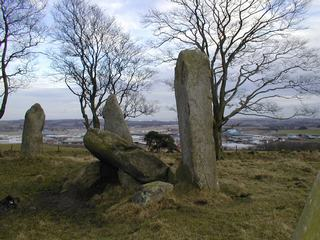 Tyrebagger Stone Circle Looking over the airport from Tyrebagger Hill. For some info on the stone circle